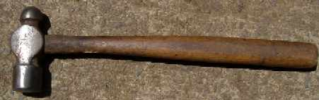 Photograph of a 380mm ball-peen hammer